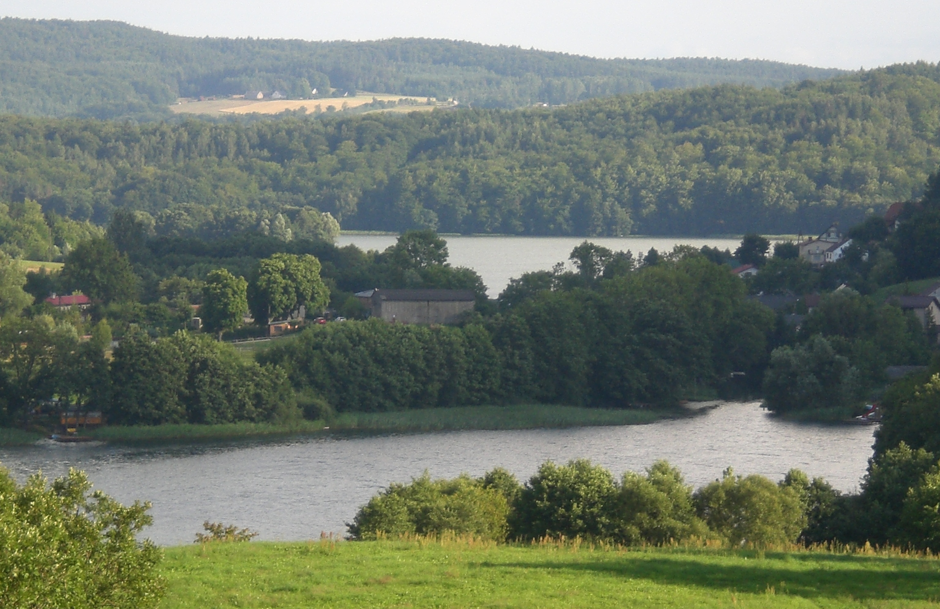 Brodnica Dolna - a village in Kashubian Lakeland